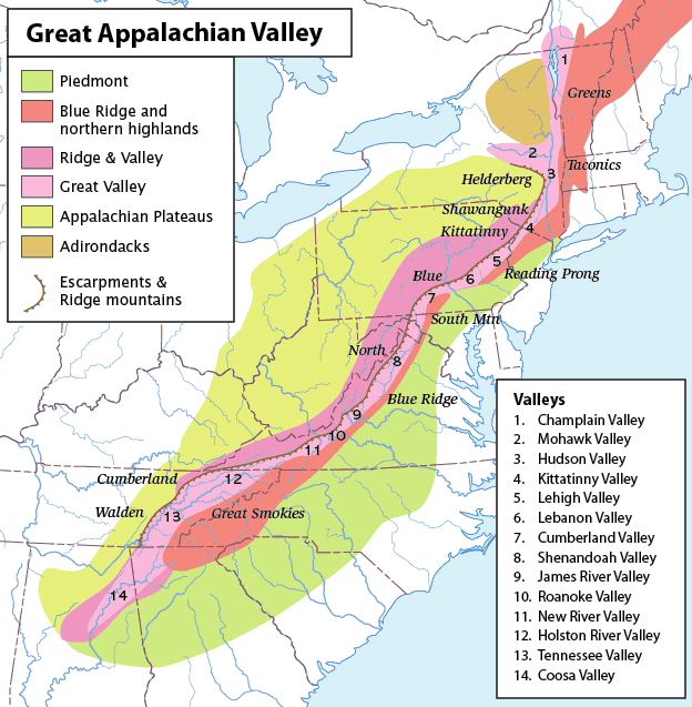 Map of the Appalachian Mountain physiographic regions, highlighting the Great Appalachian Valley, naming the main valleys making it up and the main mountains on either side. Legend: Piedmont Blue Ridge Mountains and Northern Highlands Ridge and Valley Great Valley Appalachian Plateaus Adirondacks Escarpments and Ridge Mountains